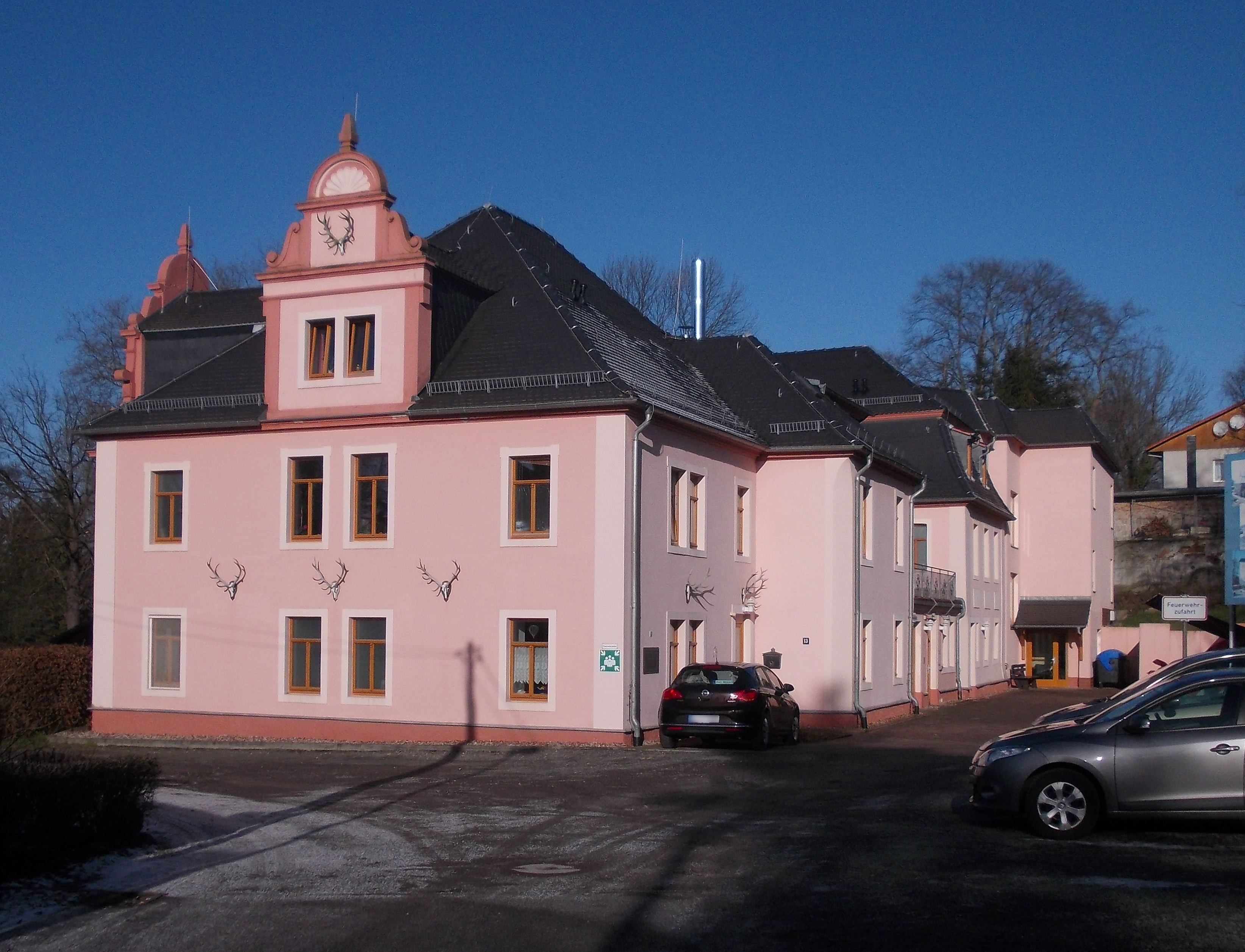 Polenz castle (Brandis, Leipzig district, Saxony)